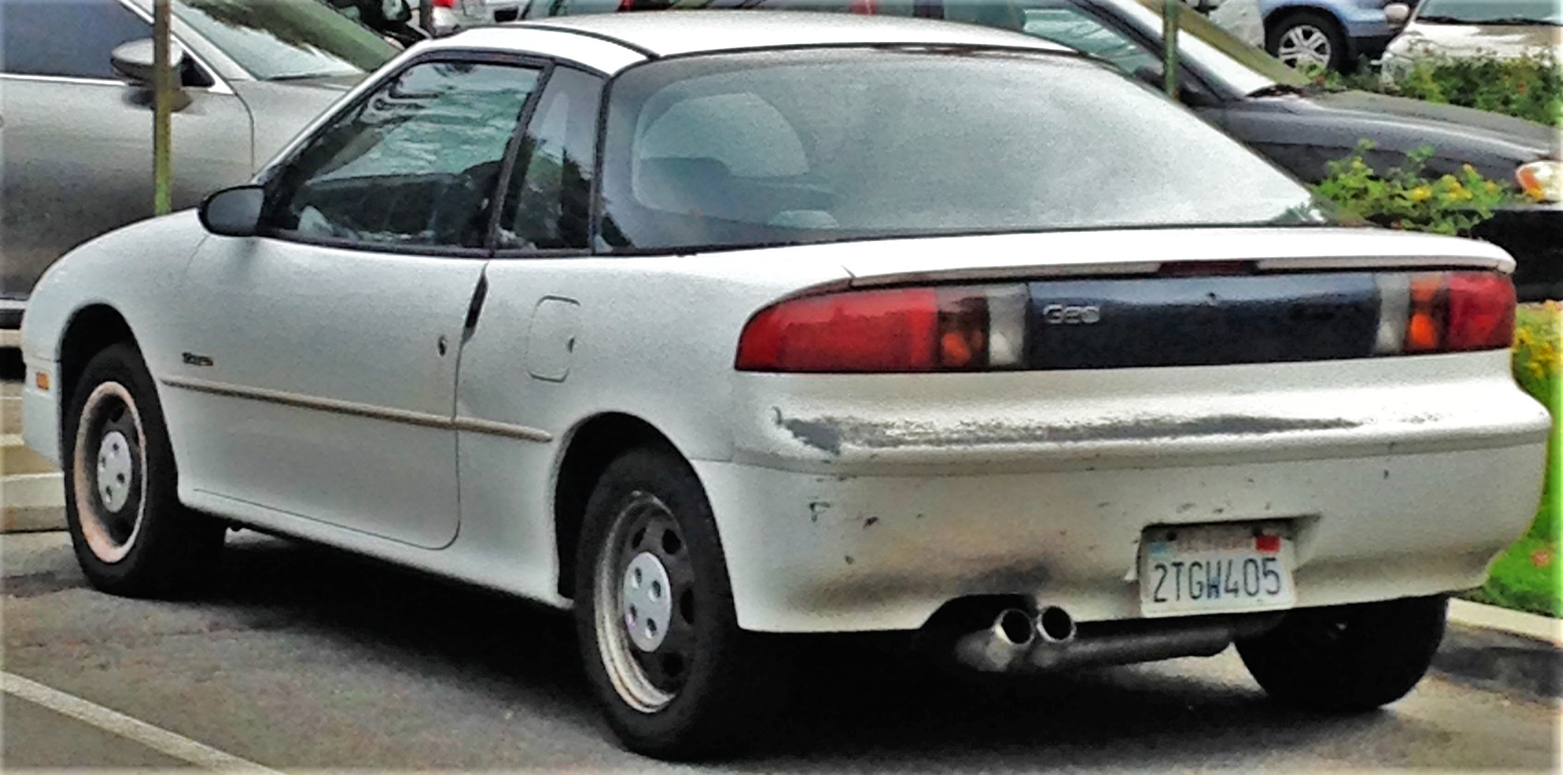 Geo Storm